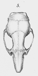 This picture is extracted from "Leche 1886 plate 16.png"; fig. 5. It shows the skull of the Euryoryzomys russatus from above.